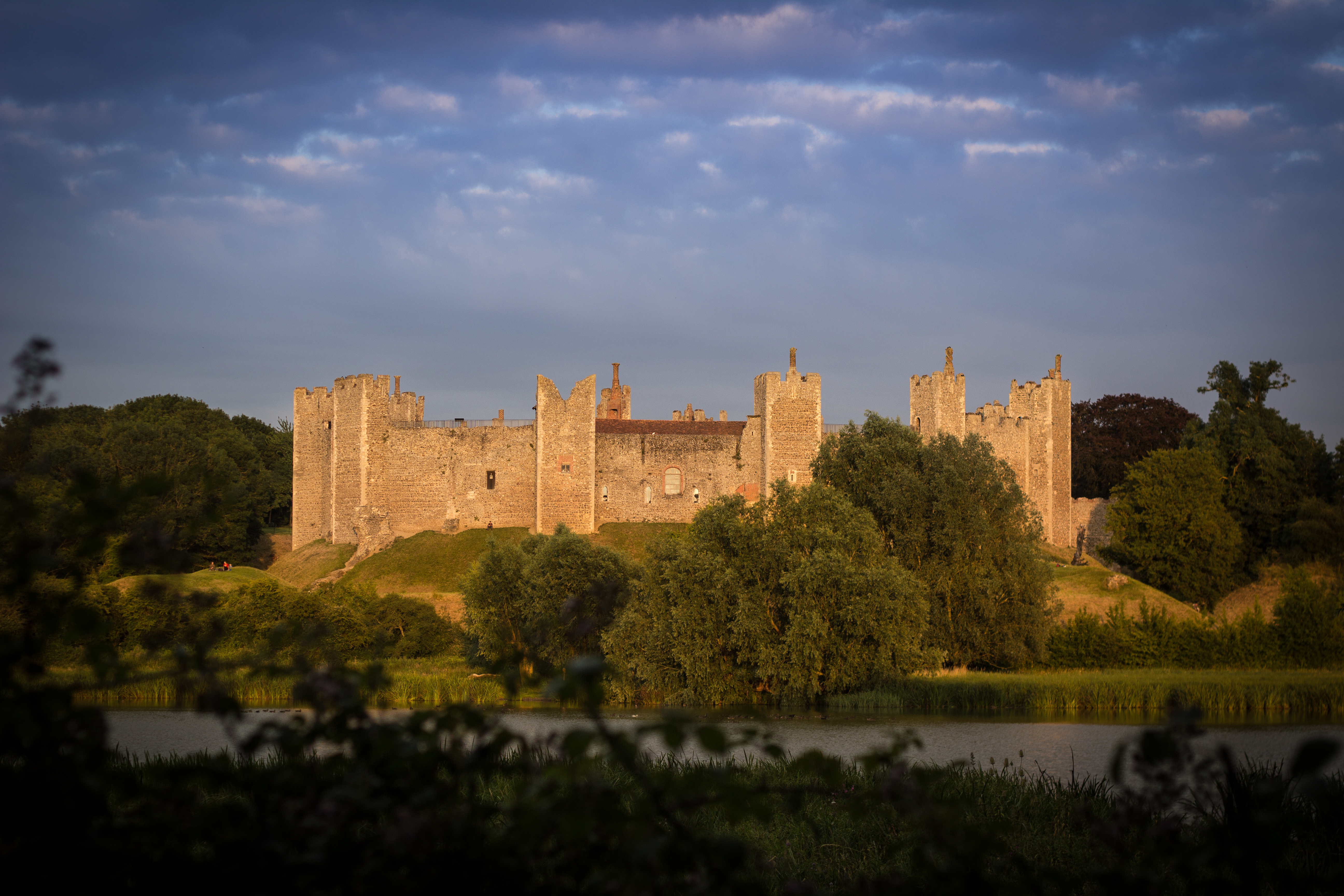 Framlingham Castle Wikidata has entry Q17646569 with data related to this item.